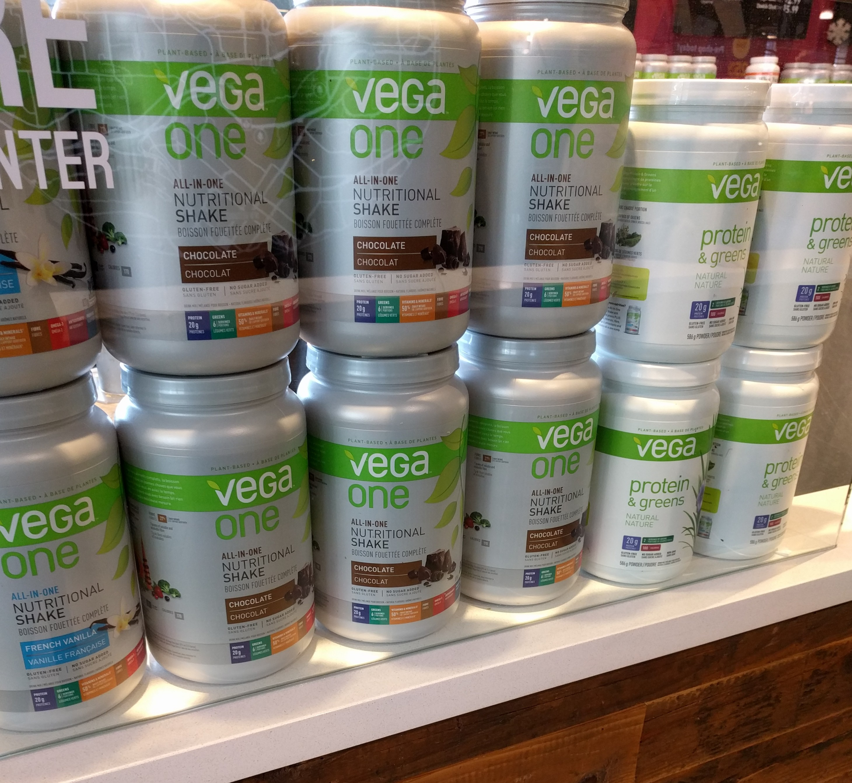 Vega One all-in-one nutritional shake powder and Vega protein and greens powder on display at a Vega Juice Bar inside a Whole Foods Market in Burnaby.